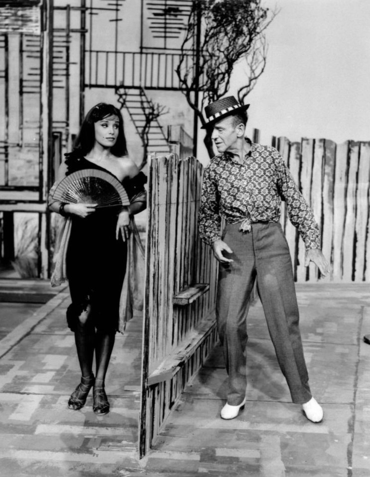 Photo of Barrie Chase performing with Fred Astaire from an Astaire television special Astaire Time.